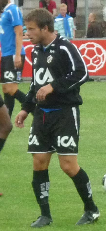 Jonas Gudni Saevarsson in 2010